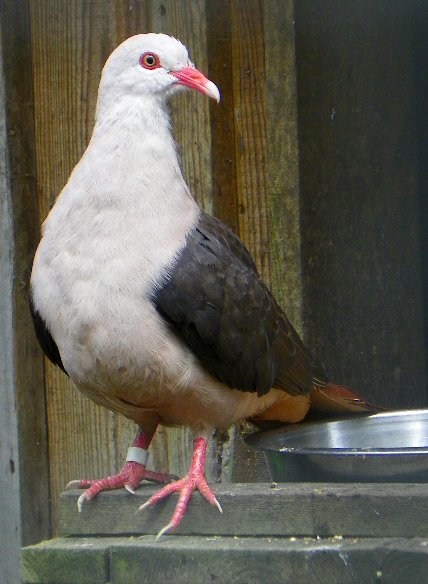 A Pink Pigeon at Birdworld, Farnham, Surrey, England.